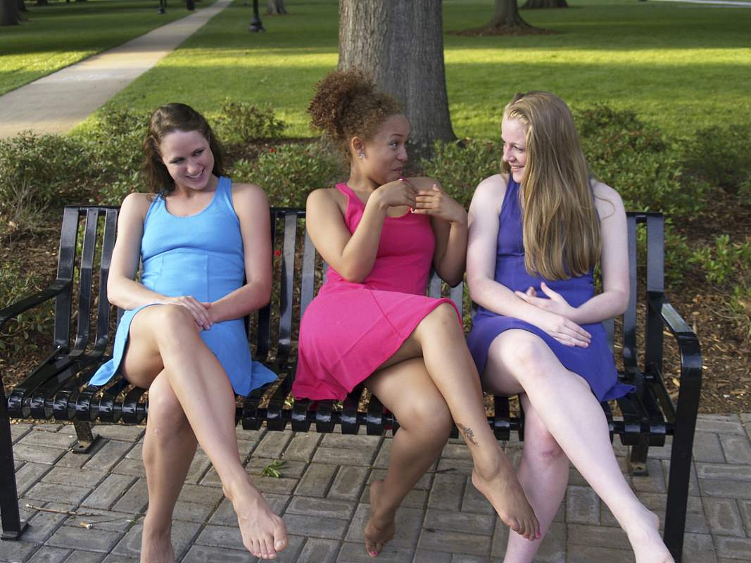 Three barefoot females smiling